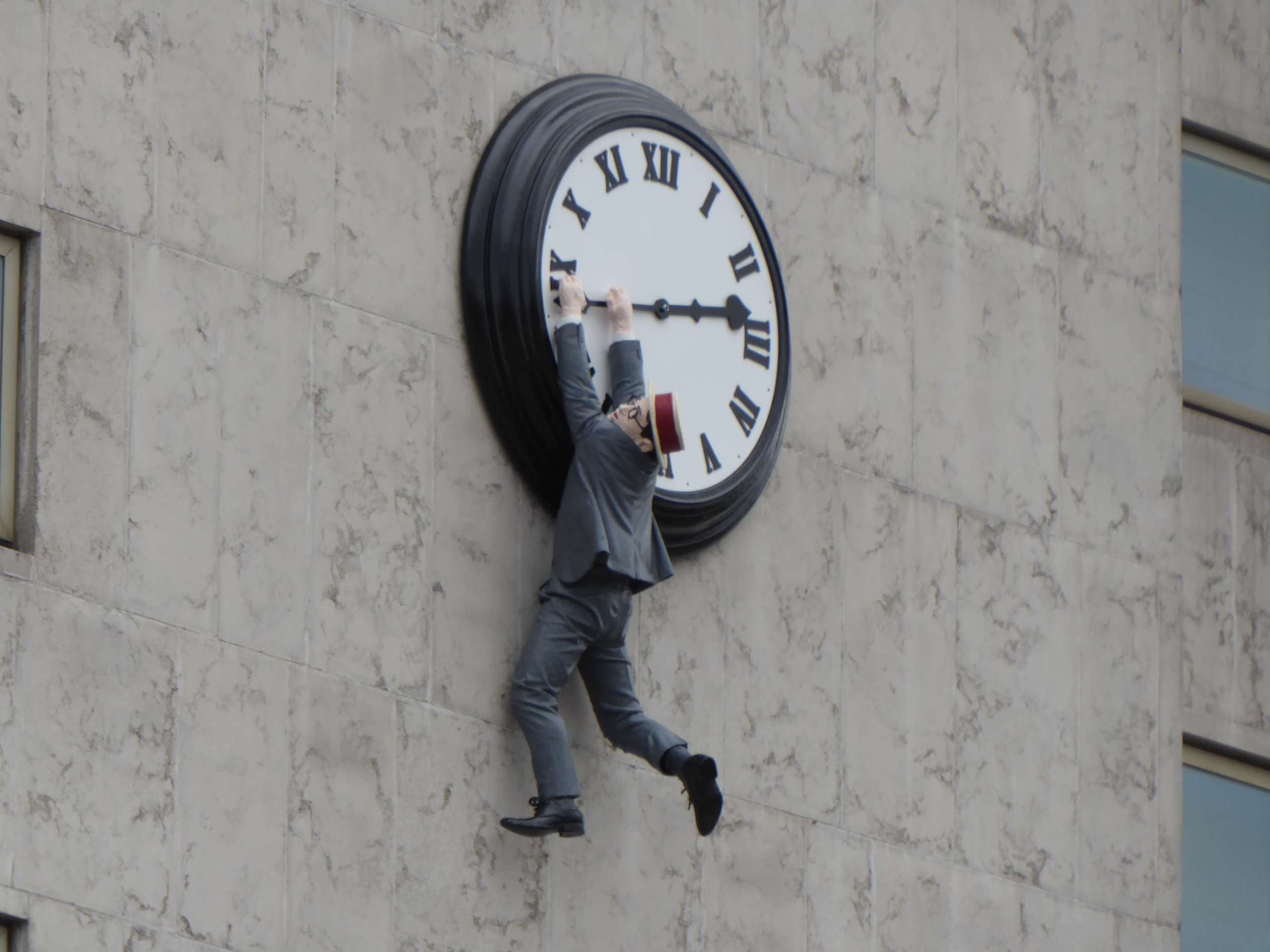 Harold Lloyd's imitation hanging down the clock in the film Safety Last! on a side of the InterContinental Vienna hotel in november 2016.